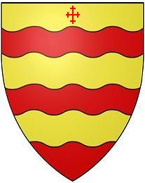 Arms of Williams Bassett, post 1880, of Watermouth Castle, Devon: Barry wavy of six or and gules in the centre chief point a cross crosslet of the last. Arms granted to Charles Henry Williams by Royal Licence 1880, being the ancient arms of Basset of Heanton Punchardon differenced by a cross-crosslet gules.